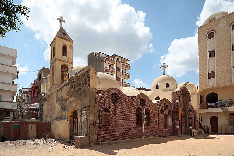 St. Mark Church, Rashid, Egypt